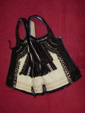 Traditional greek woman cloth for the upper part of the body, named "shighouni".